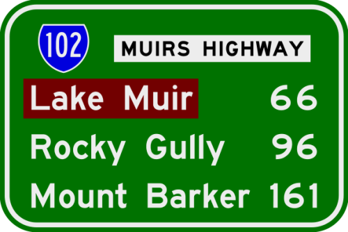 Muirs Highway Route Confirmation Sign